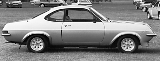 Summary I made this, freely donated to Wikipedia